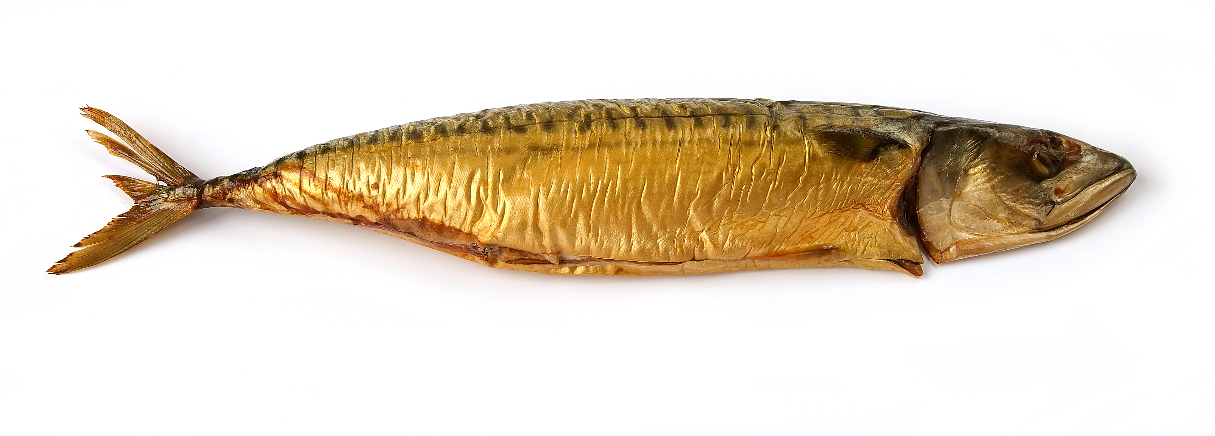 Atlantic mackerel Scomber scombrus.